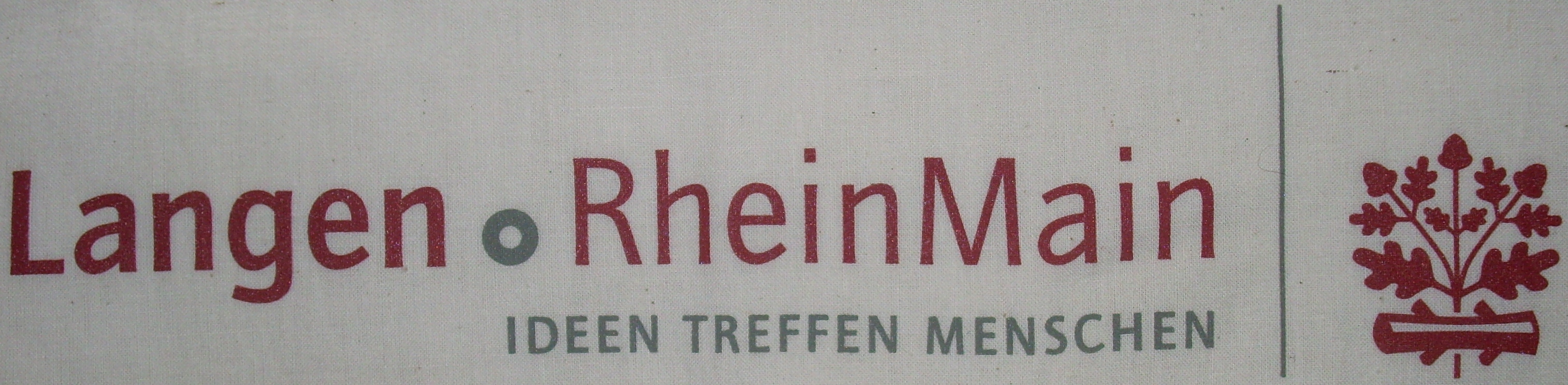 The slogan or logo of the city of Langen.